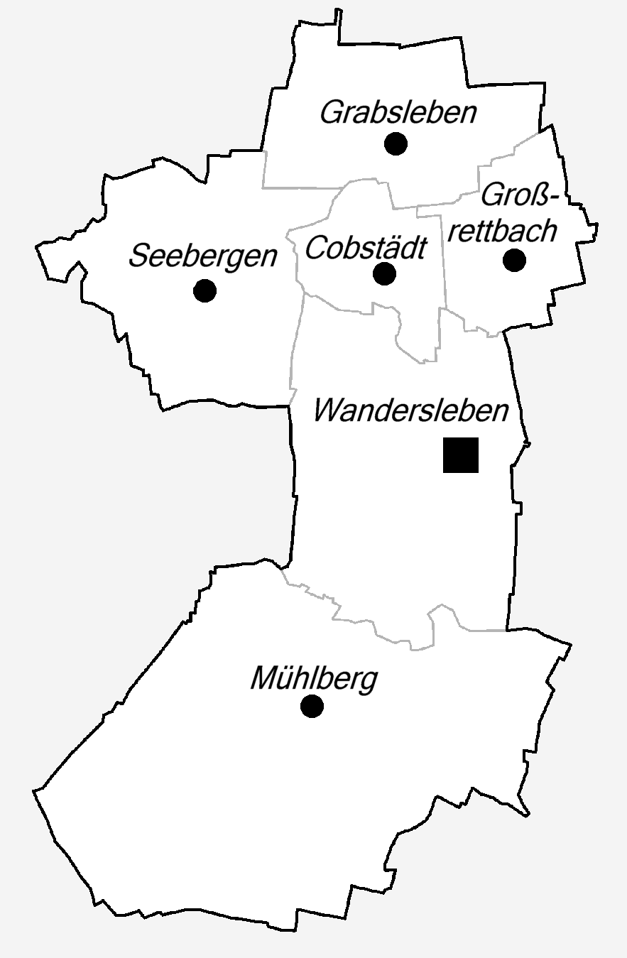 District-Maps of Drei Gleichen village in Thuringia.